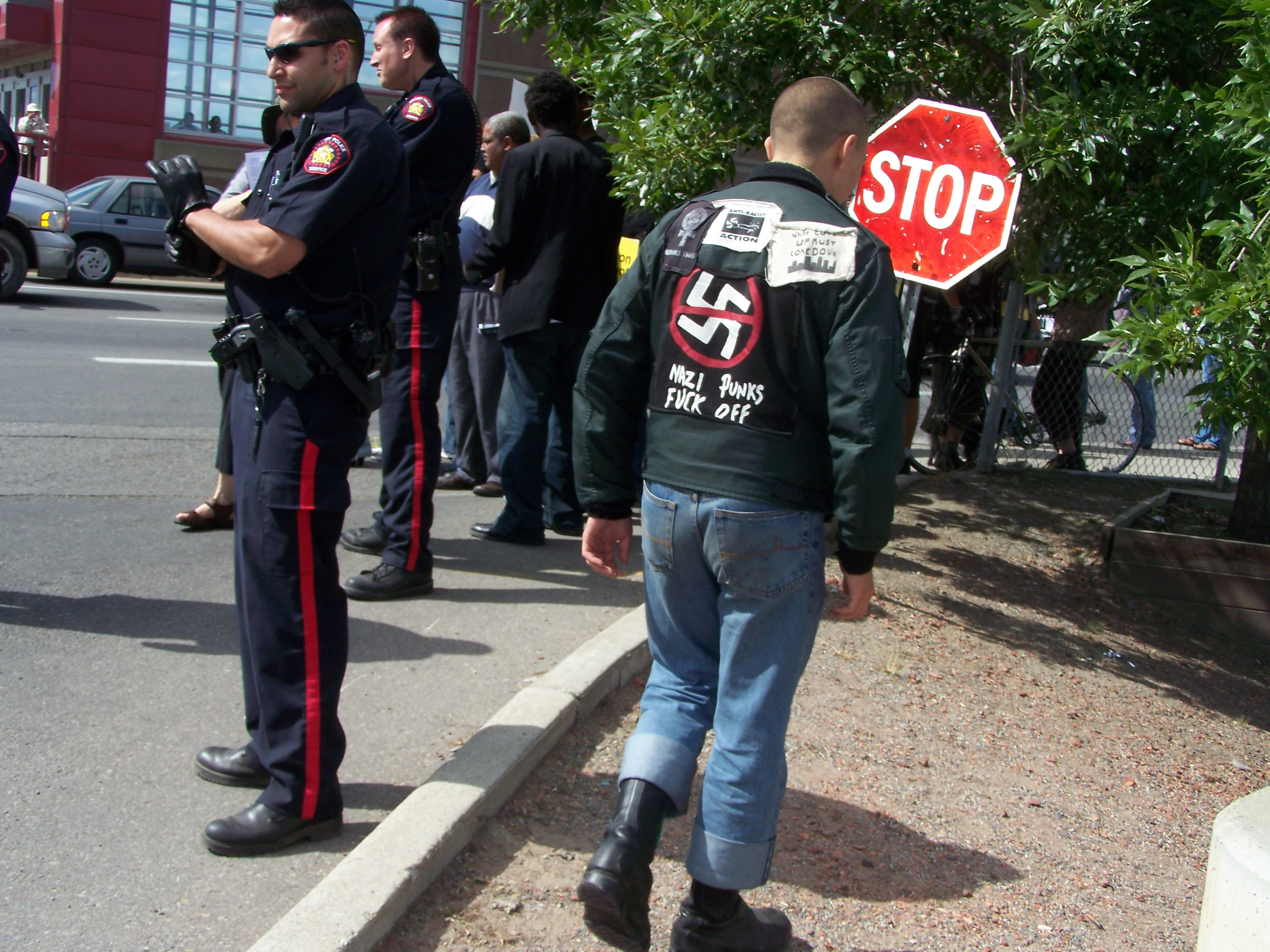 Ant-racist protest held in Calgary, Alberta on August 25, 2007. The Marlborough LRT station is visible in the upper left off image.